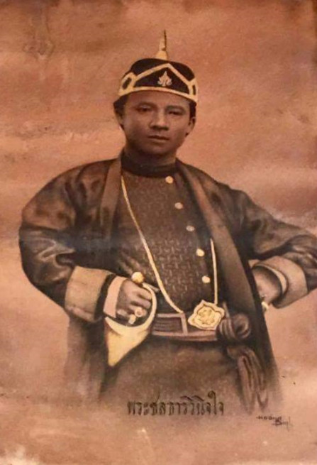 A portrait of Phra Chonlathan Vinnicchai (Chun), a Thai noble of Vietnamese descendant who serves as an official during Rama V's reign. Displayed at The Wat Samanaanam Borihan, Bangkok, Thailand.